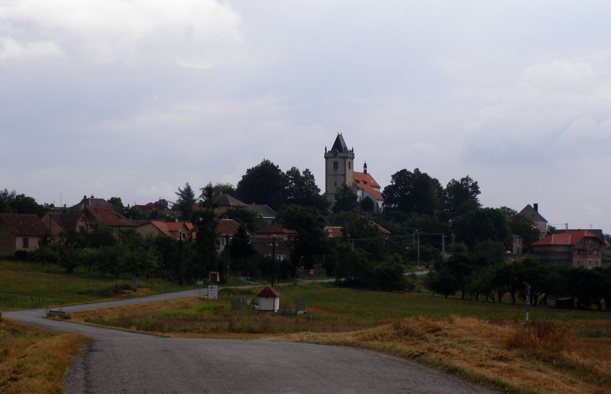 Budišov. View from the road to Nárameč